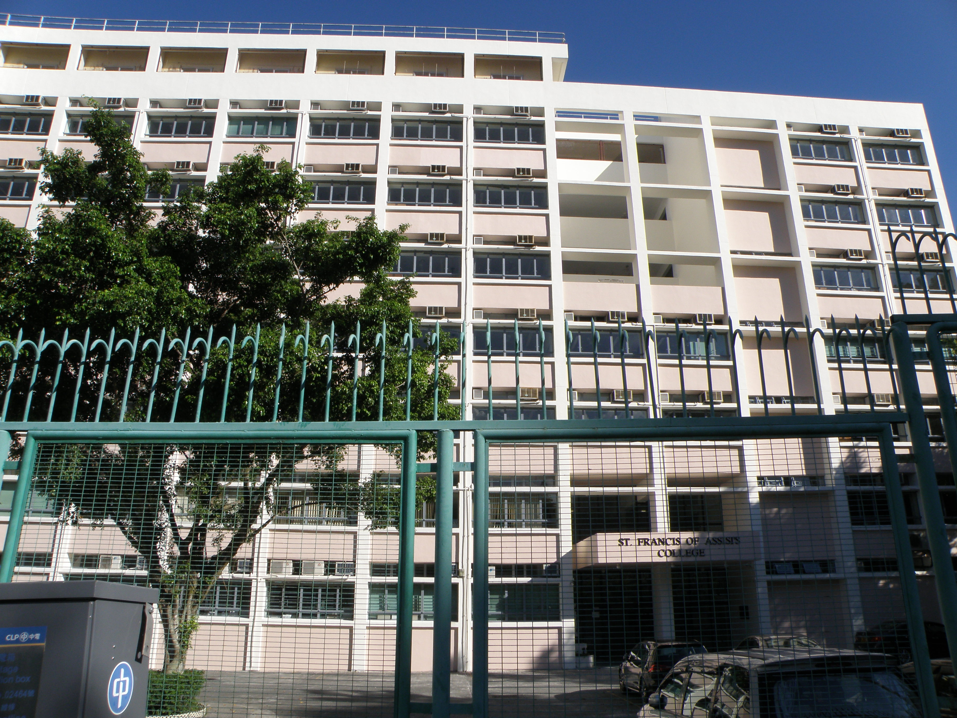 St.Francis of Assisi's College in Fanling, Hong Kong.